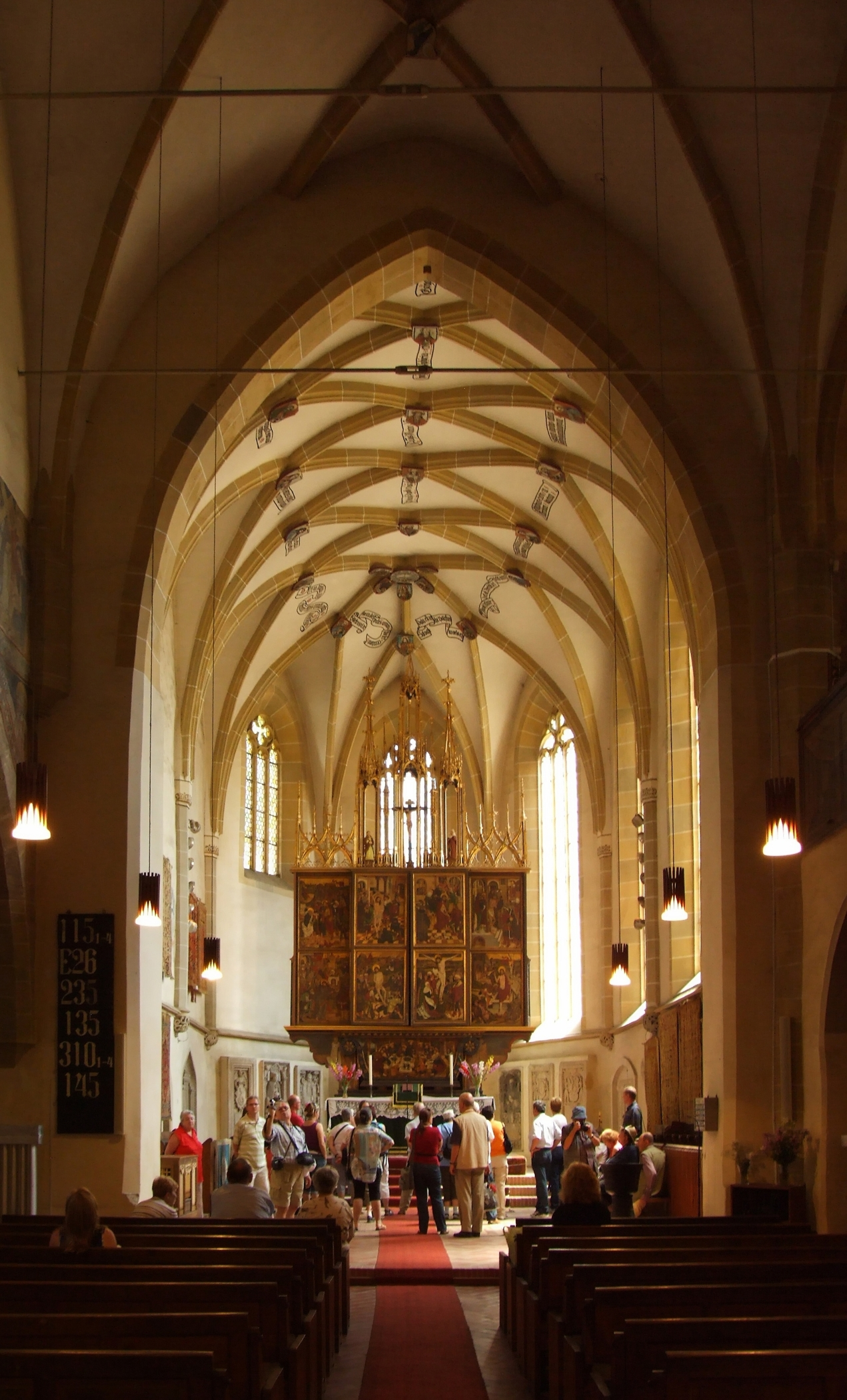 Mediaş (Mediasch, Medgyes) - Church of Saint Margaret. Main altar